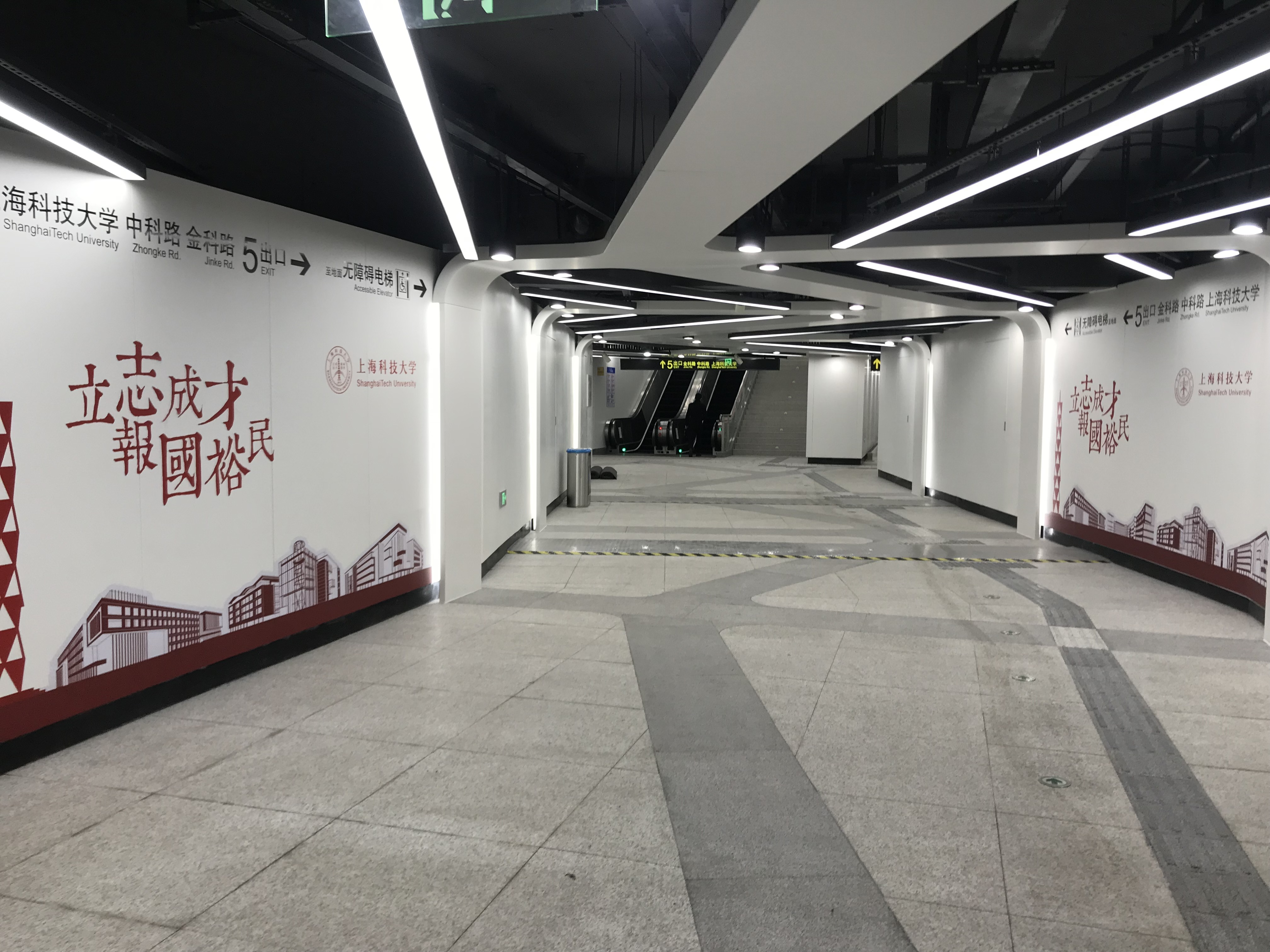 The motto of ShanghaiTech University at the No. 5 entrance of Zhongke Road Station Shanghai Metro Line 13. Zhongke Road Station is at the east gate of ShanghaiTech University.